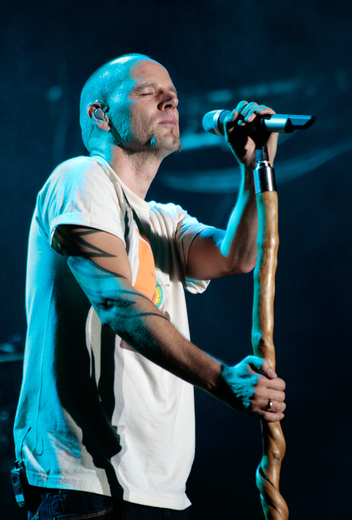 Thomas D at the Donauinselfest 2009